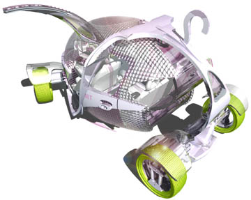 MIT Car by Mitchell Joachim, Ph.D.